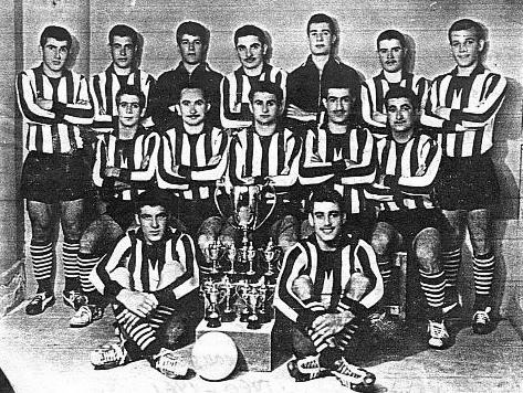 Al-Athori SC with the 1960 Iraq FA Cup Championship trophy.